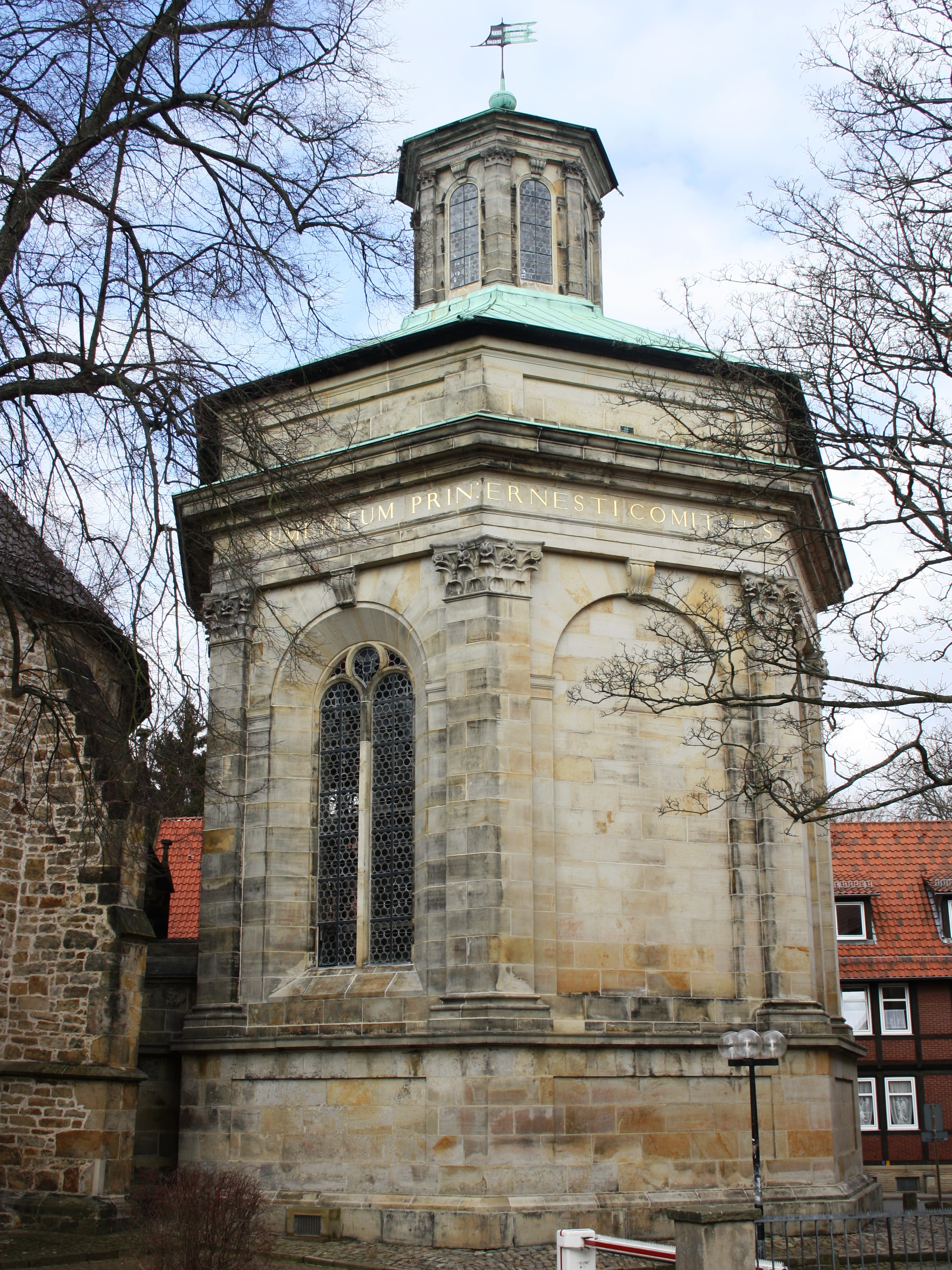 Saint Martin in Stadthagen, Germany. Mausoleum of the House of Schaumburg.